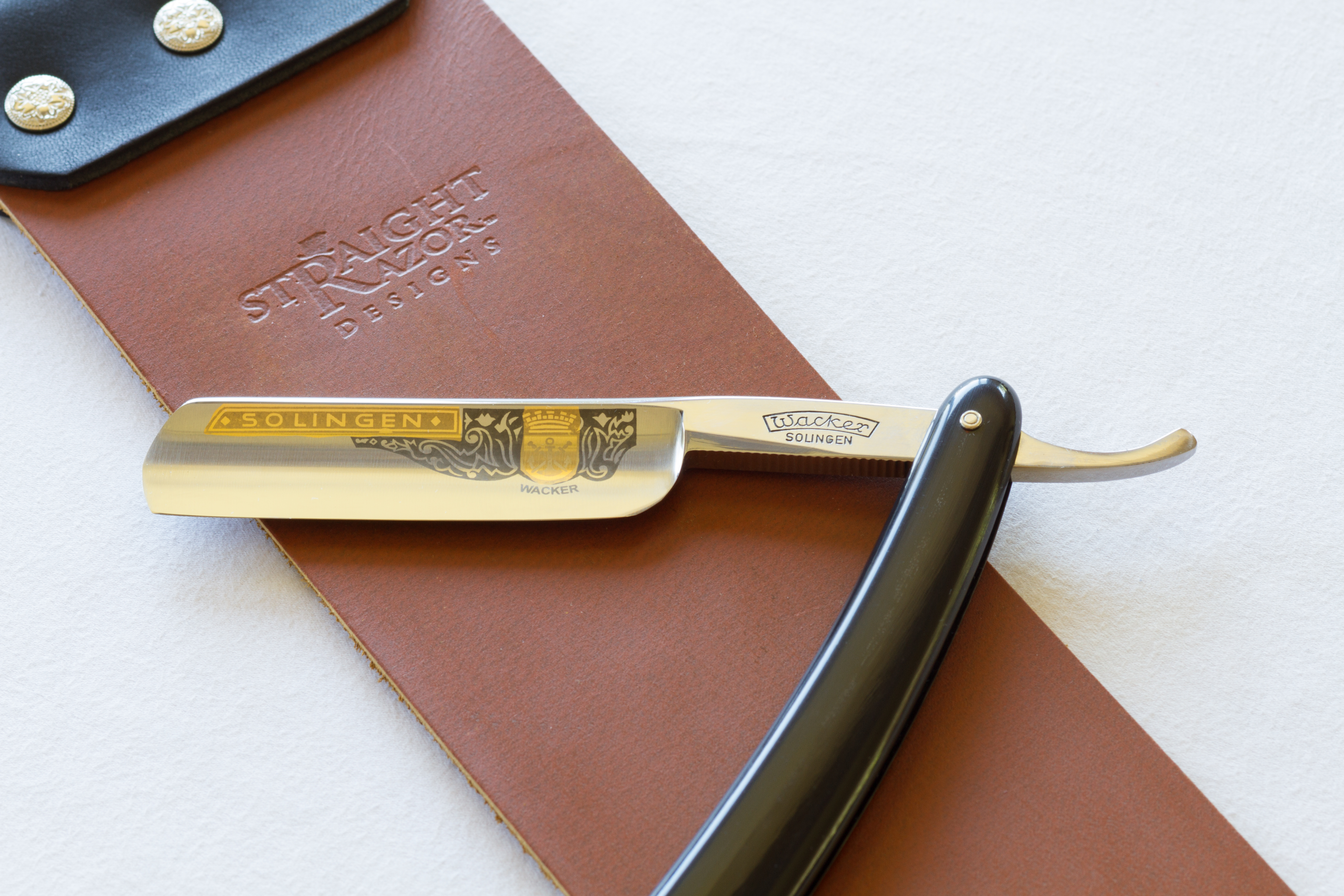 A straight razor on a leather strop. The razor is a 6/8 “Best Traditions” made by Heribert Wacker, Solingen, with a handle of dark buffalo horn.